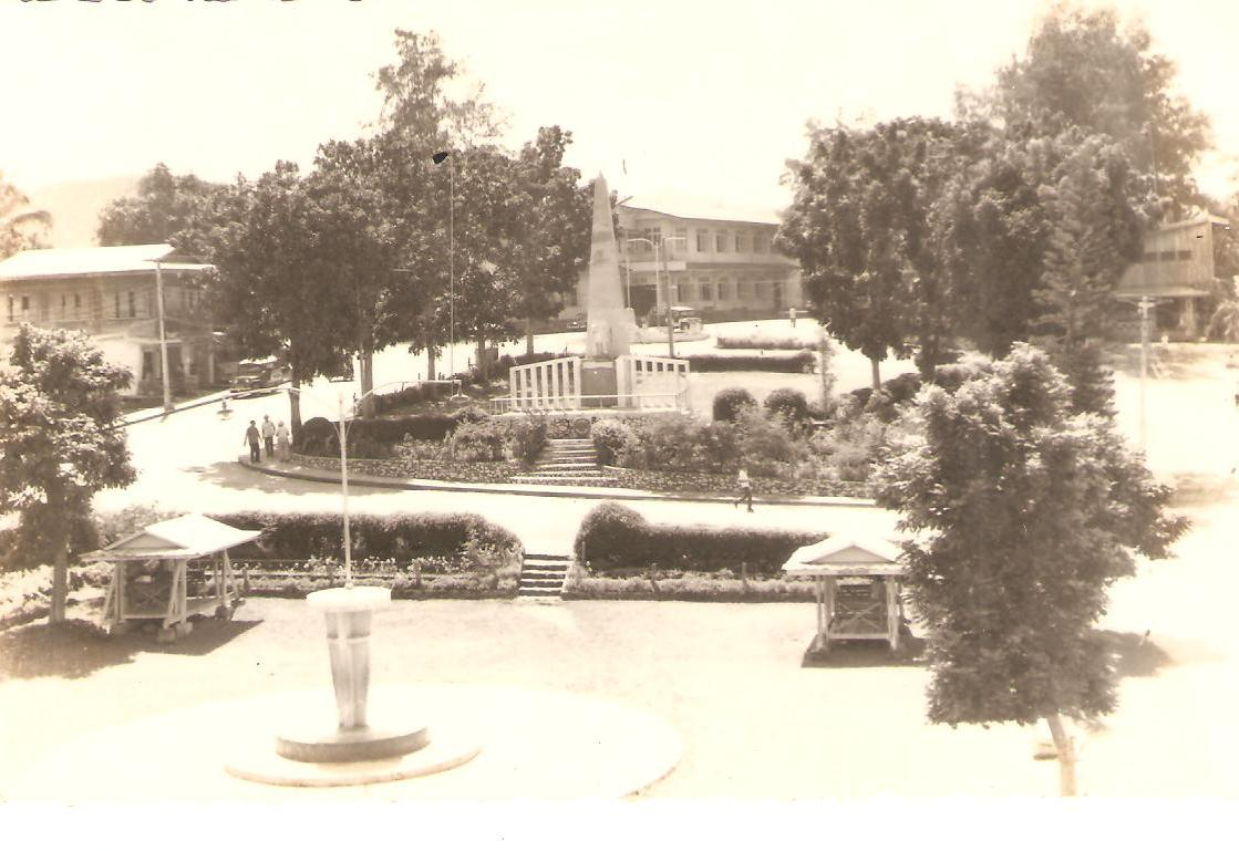 Photo of Isabela Poblacion with Plaza Rizal and Plaza Misericordia